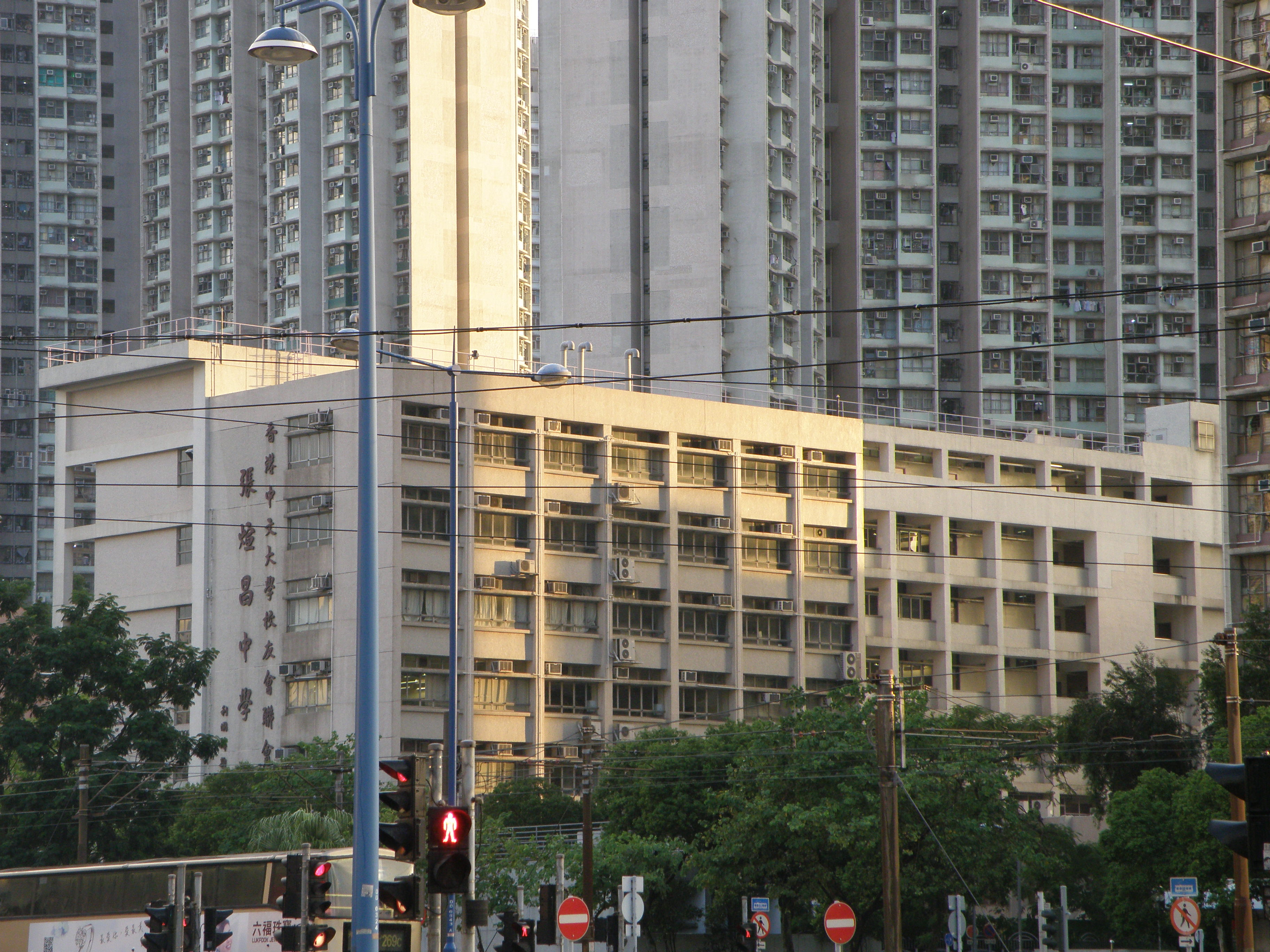 CUHK FAA Thomas Cheung Secondary School in Tin Shui Wai, Hong Kong.